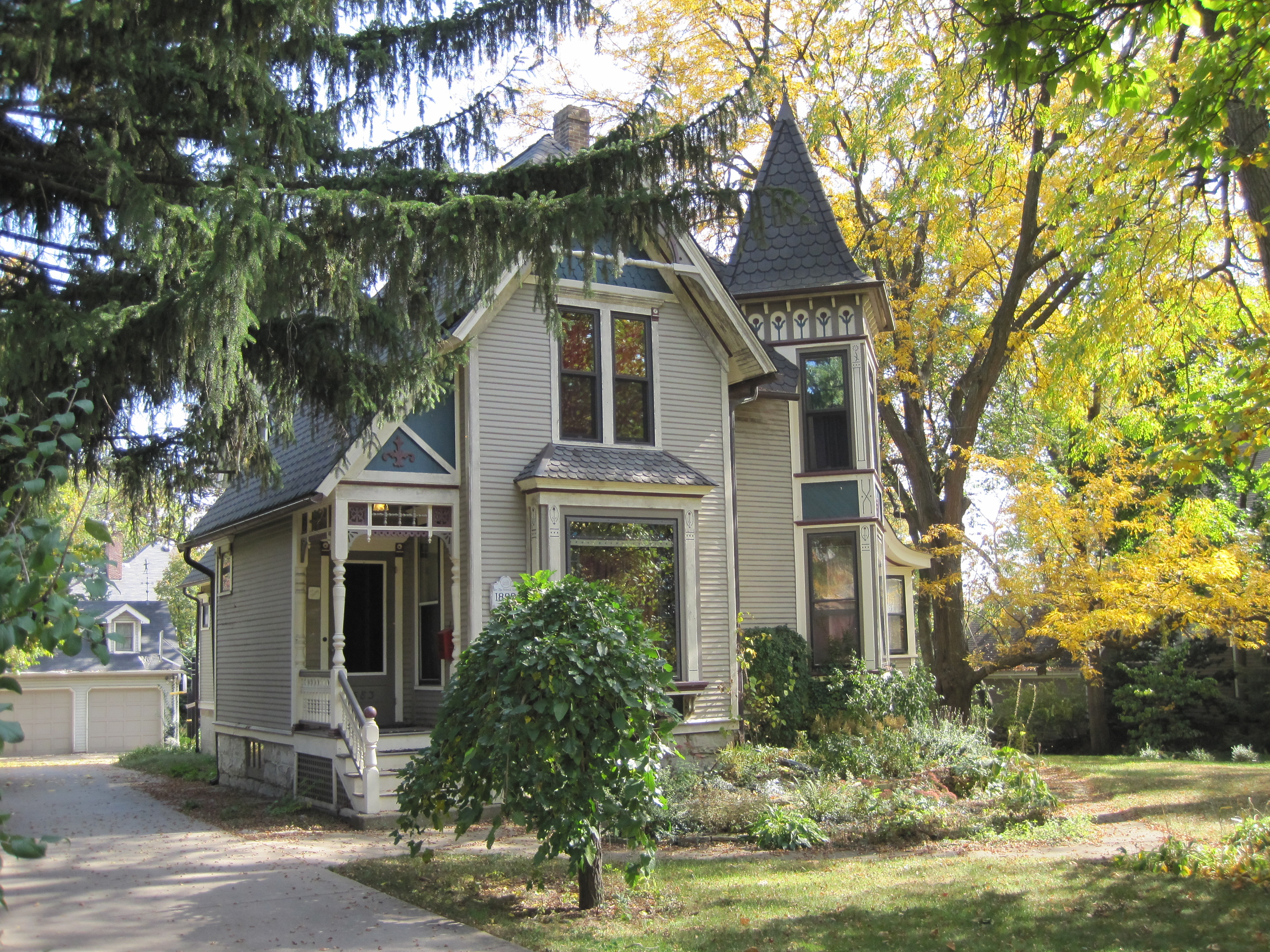 583 N. Main St., part of the Glen Ellyn Main Street Historic District, Glen Ellyn, IL